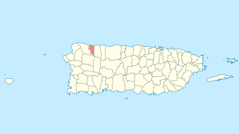 Municipal locator of Puerto Rico